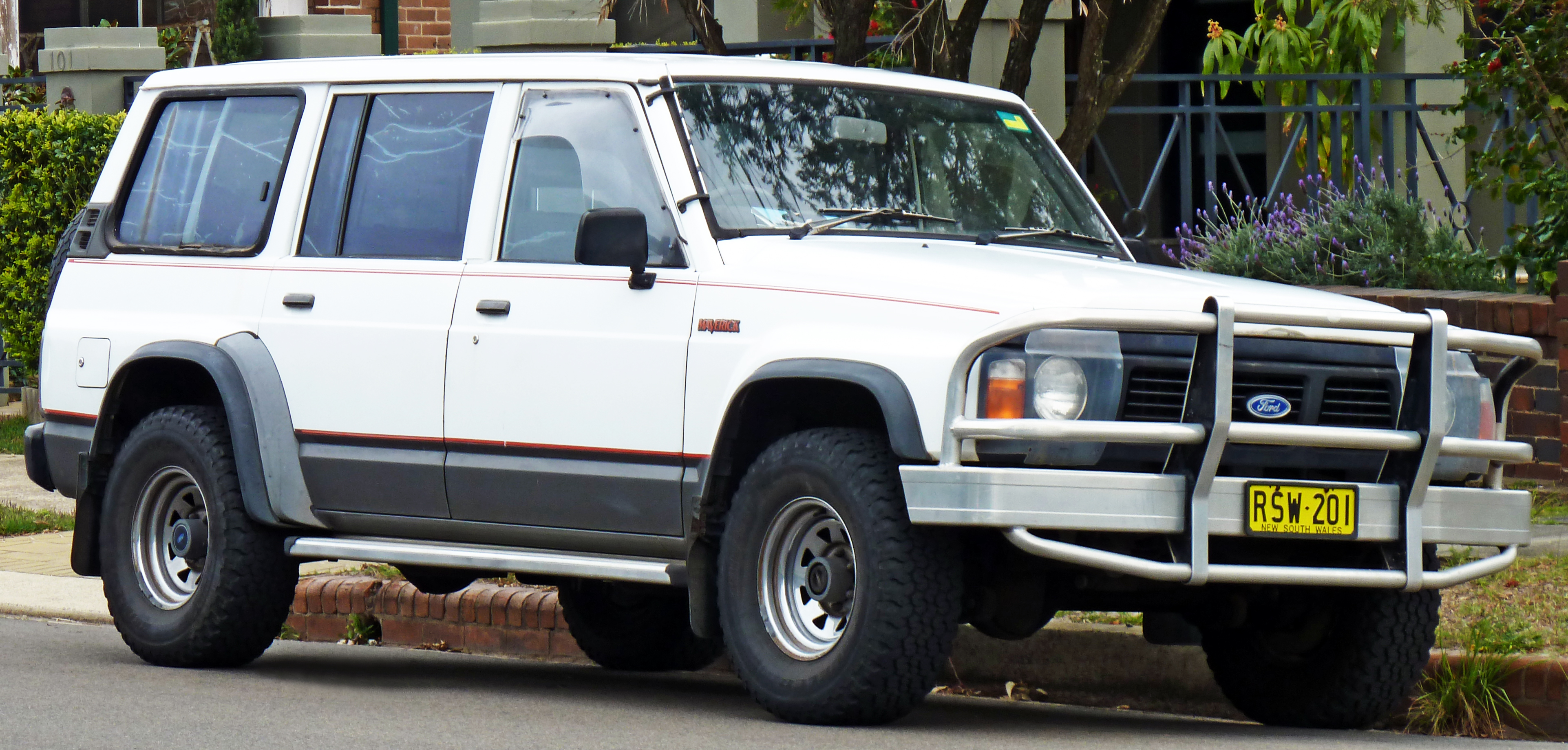 1991 Ford Maverick wagon. Photographed in Sans Souci, New South Wales, Australia.